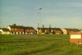 Awaiting further instruction... .